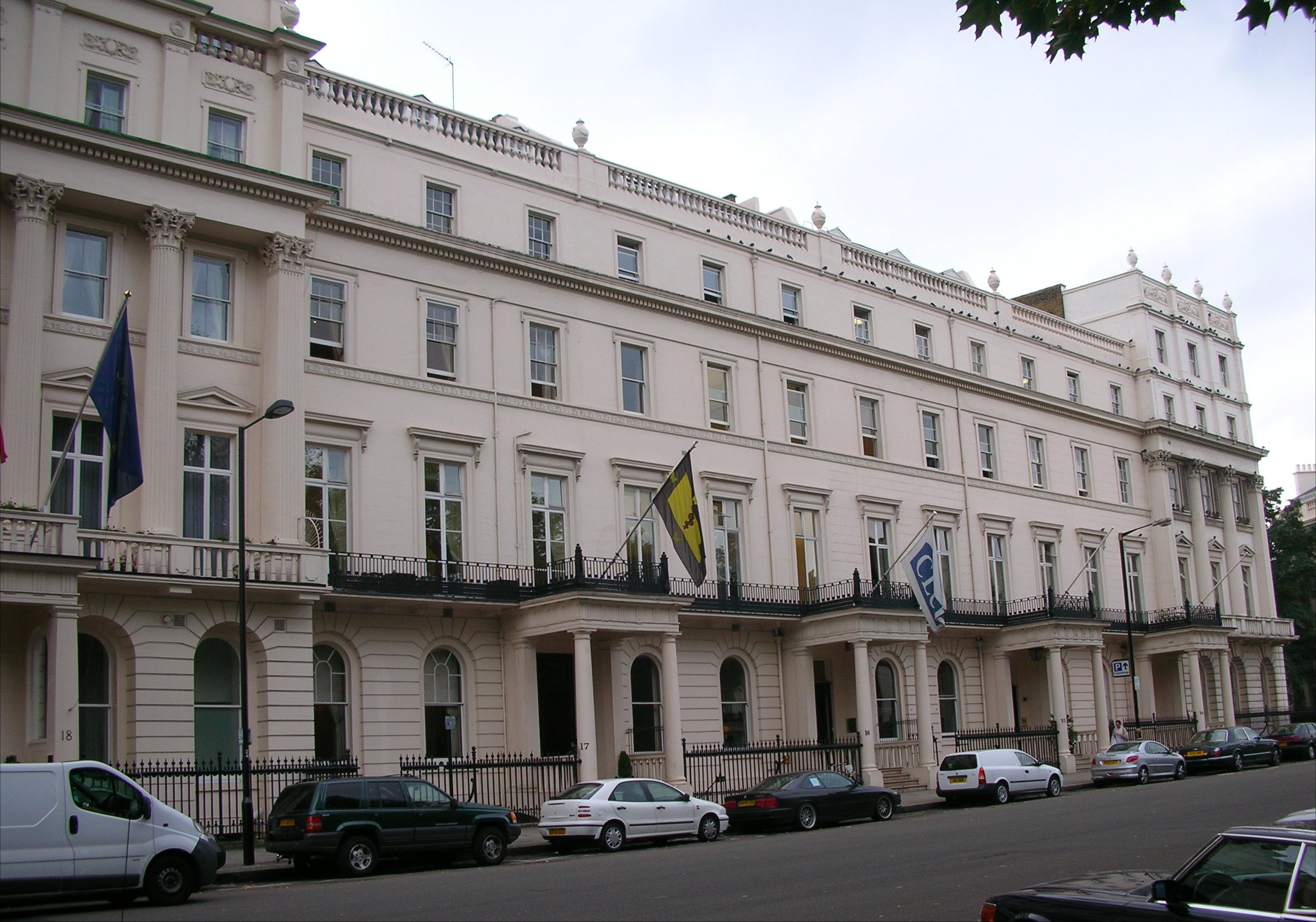 The Royal College of Psychiatrists, 17 Belgrave Square, London, England. (Building with yellow flag). Photographed by me 29 September 2006. Oosoom